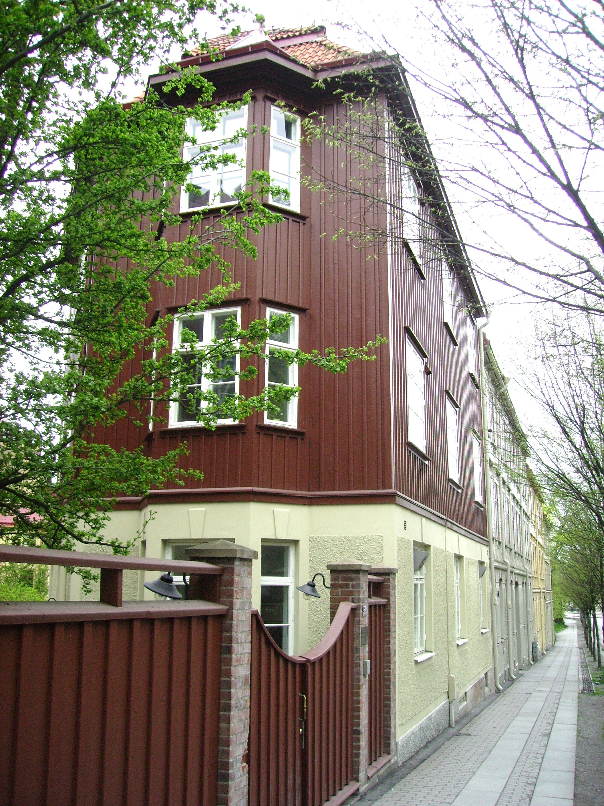 Picture of Landala in Göteborg